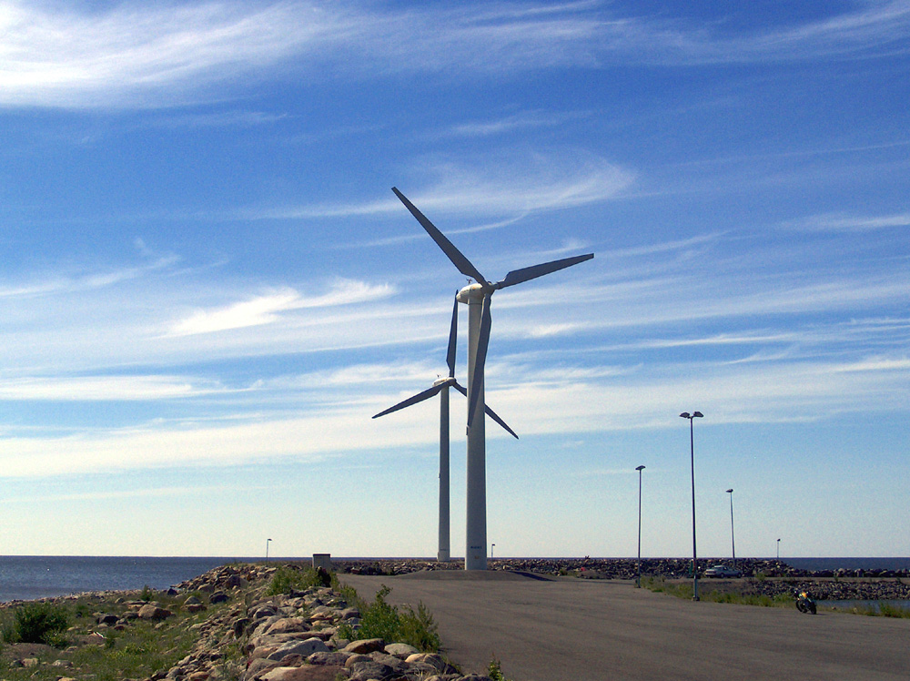 Wind turbines in Marjaniemi, Hailuoto, Finland